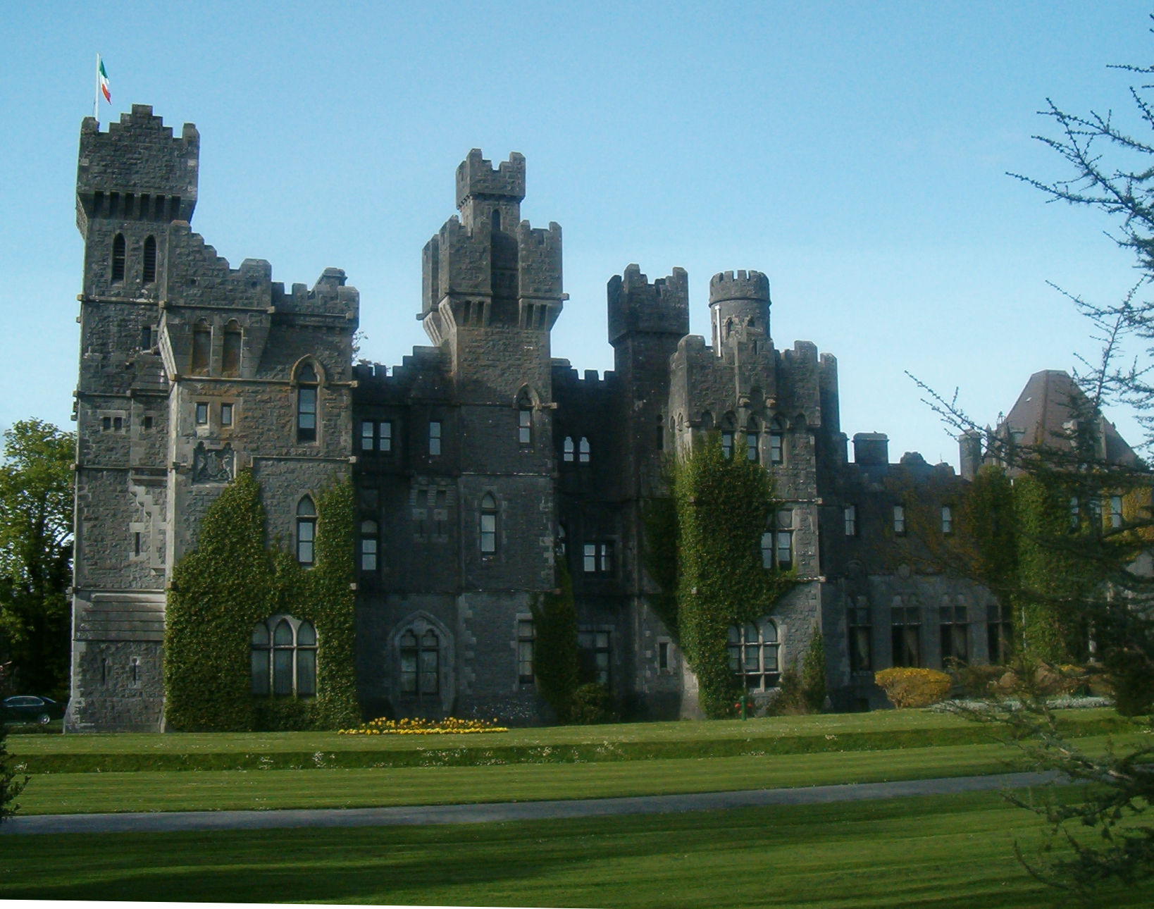 Ashford Castle, founded in 1228 near Cong (County Mayo, Ireland), is one the most beautiful and luxury hotel of the world.